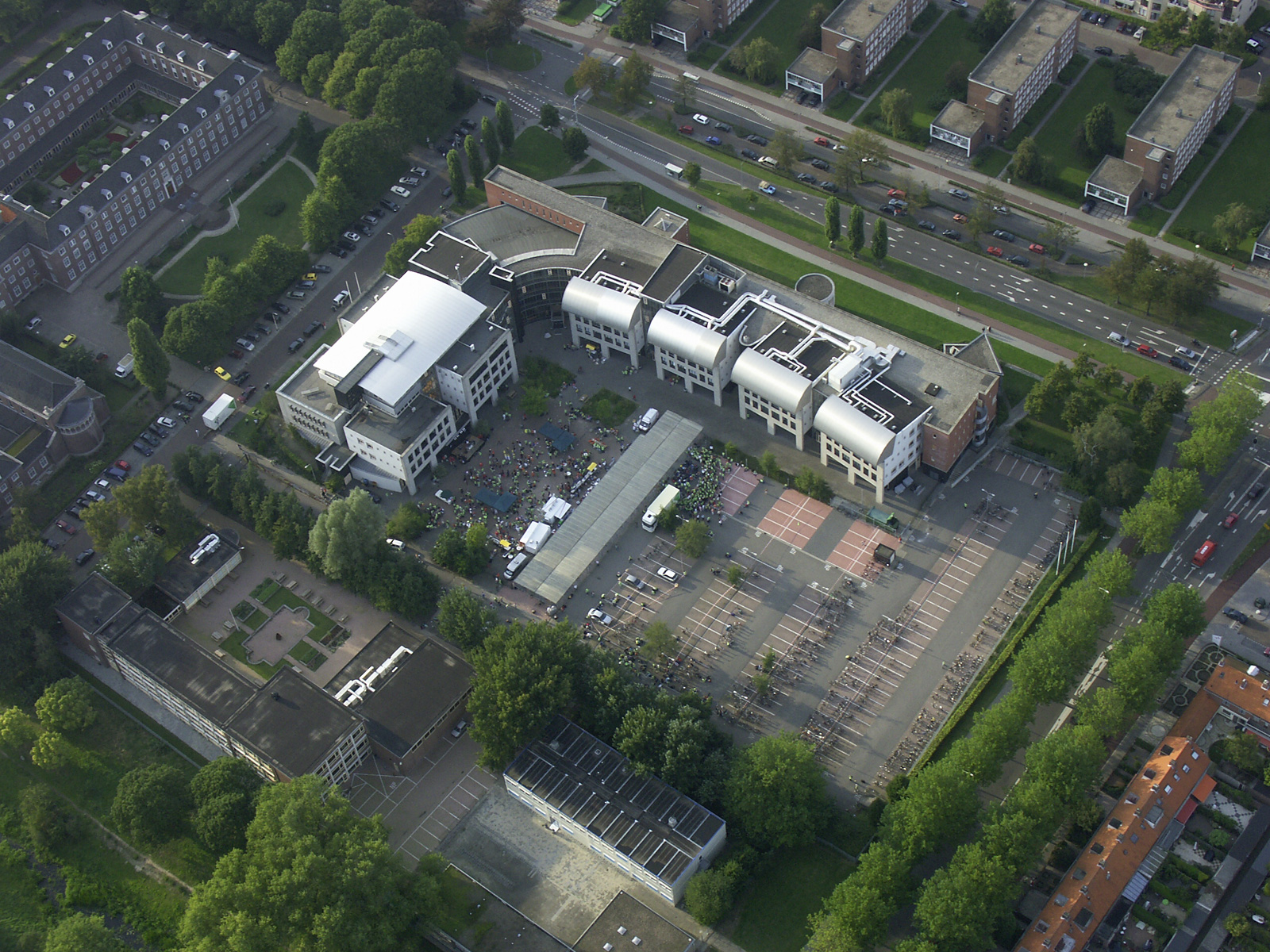 Aerial photo of the NHTV's N-building at Mgr. Hopmansstraat 1, Breda, during the introduction week of the SLM division.